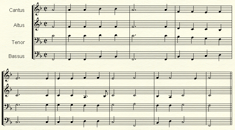 Modern transcription of the anonymous Ruggiero-model published by Diego Ortiz in his 'Tratado' of 1553.